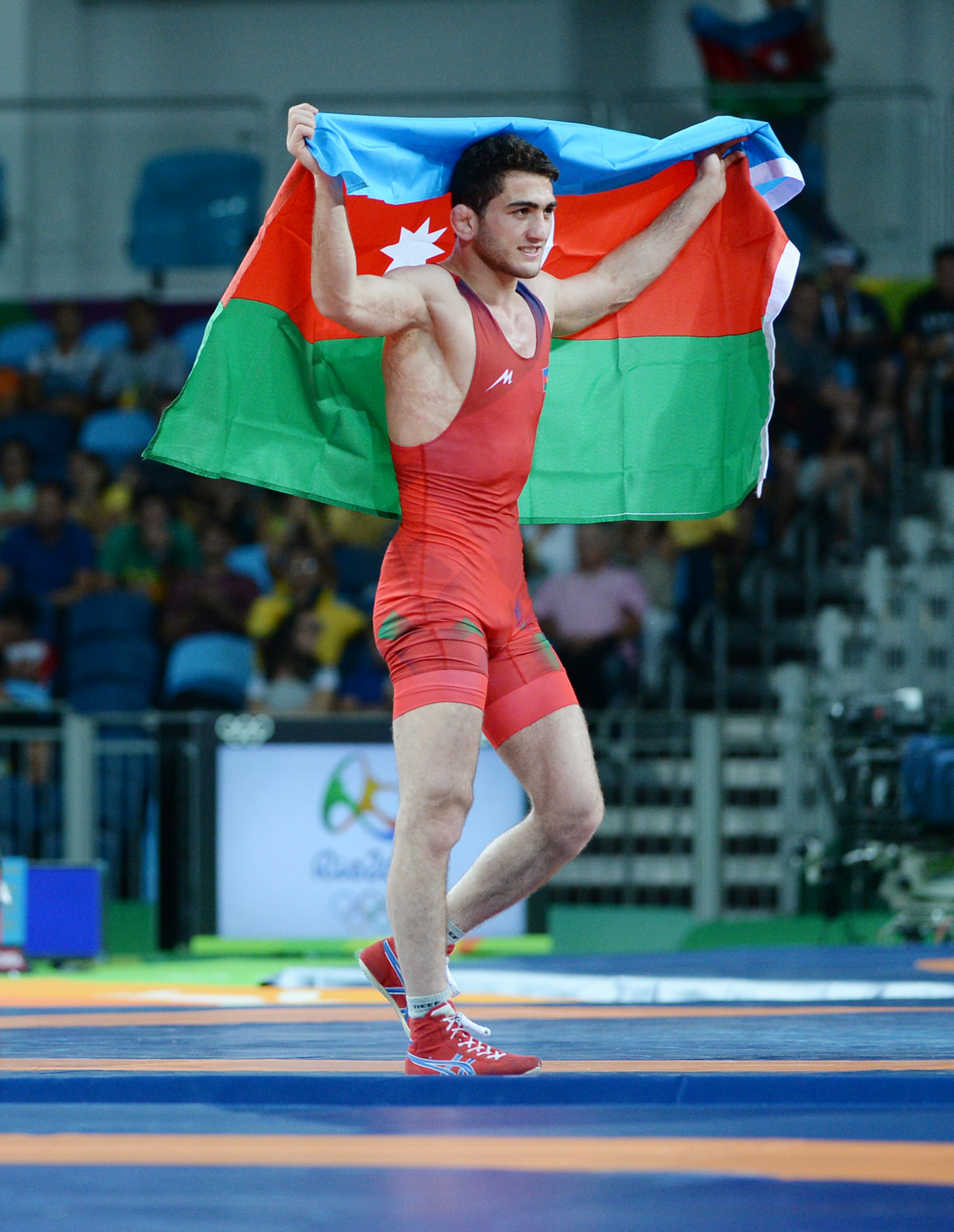 Wrestling at the 2016 Summer Olympics, Aliyev vs Dubov